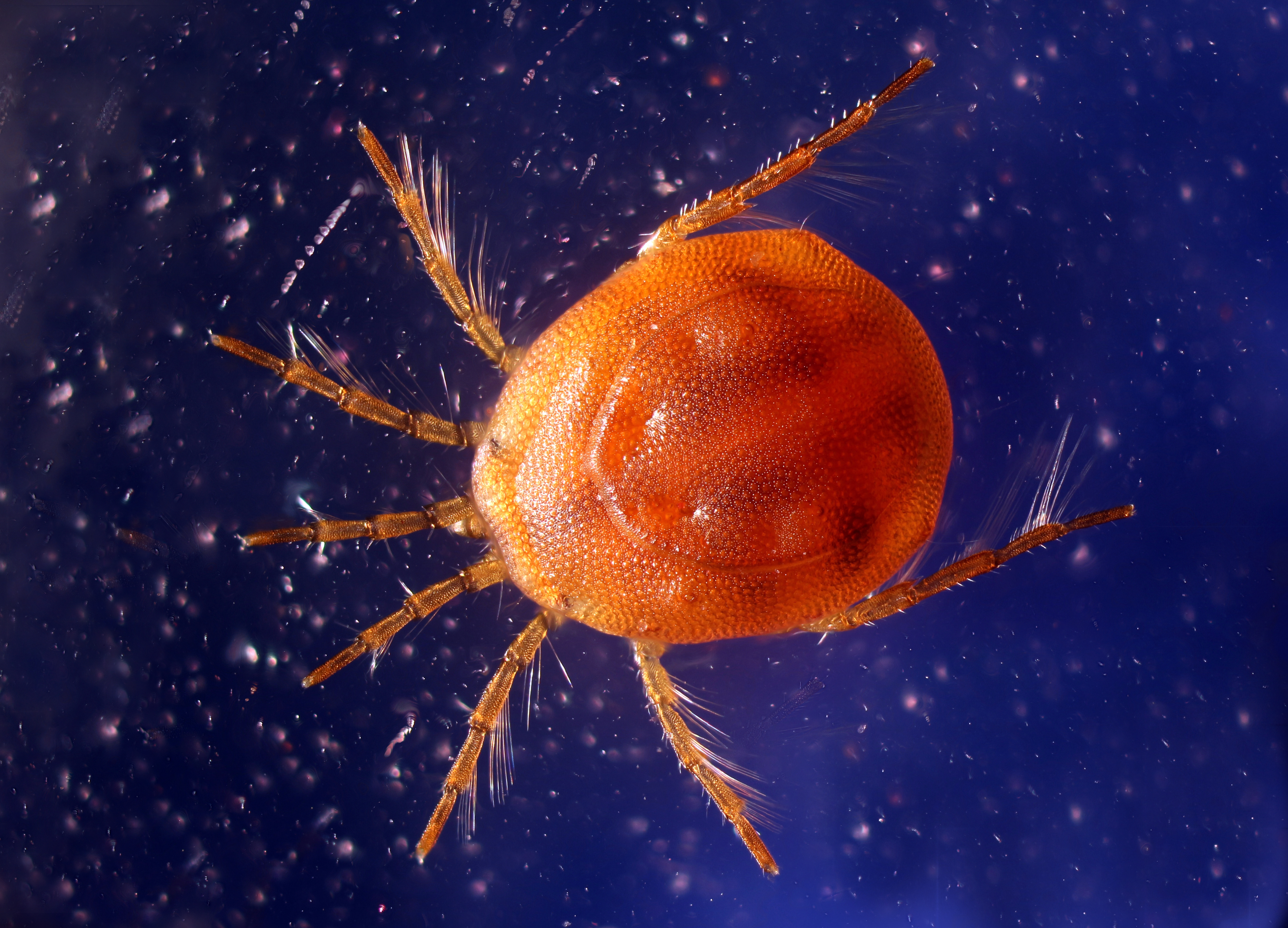 Water Mite, length: 1.1 mm The water sample is from a shallow freshwater pond Light microscopy, incident light, focus stacking.